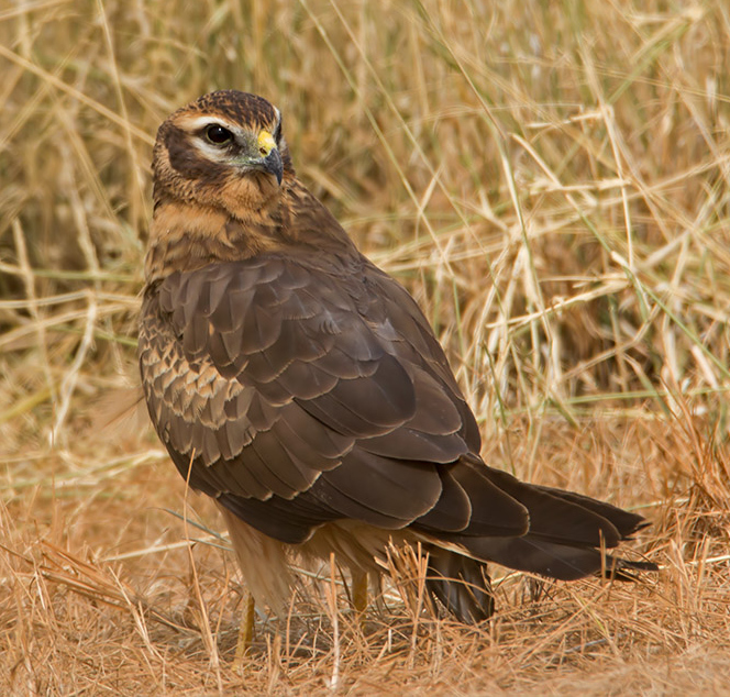 Montagu's Harrier Circus pygargus from Tal Chappar